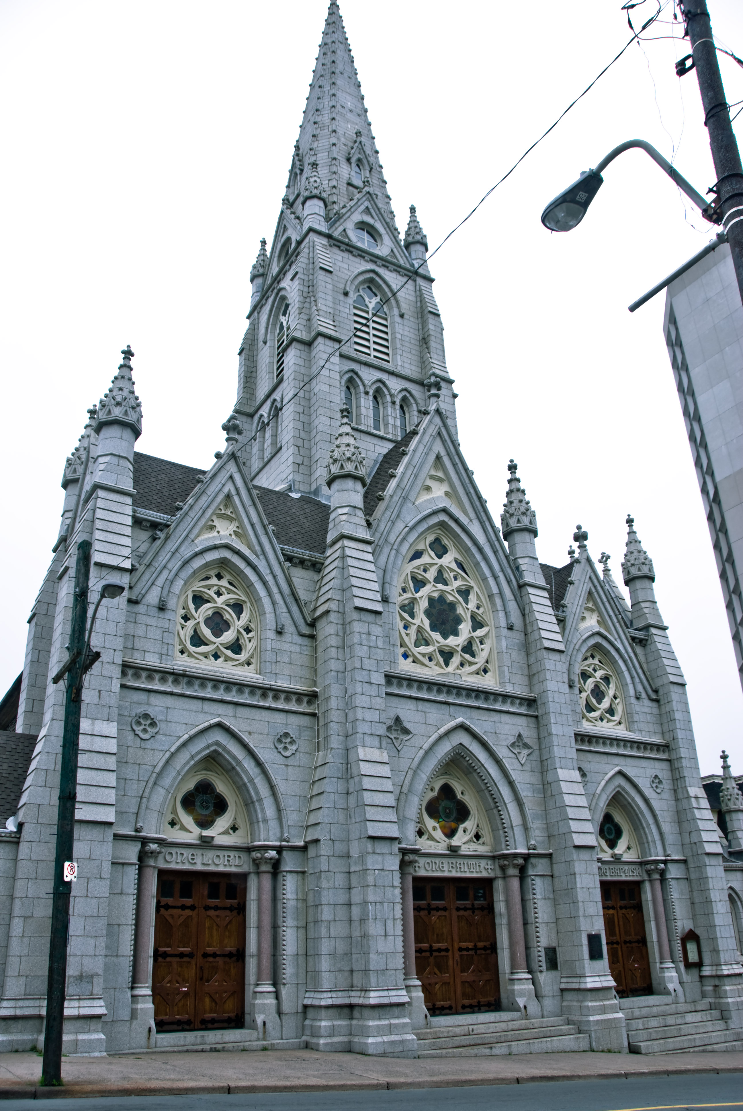 Saint Mary's Cathedral Basilica (Halifax) Canada